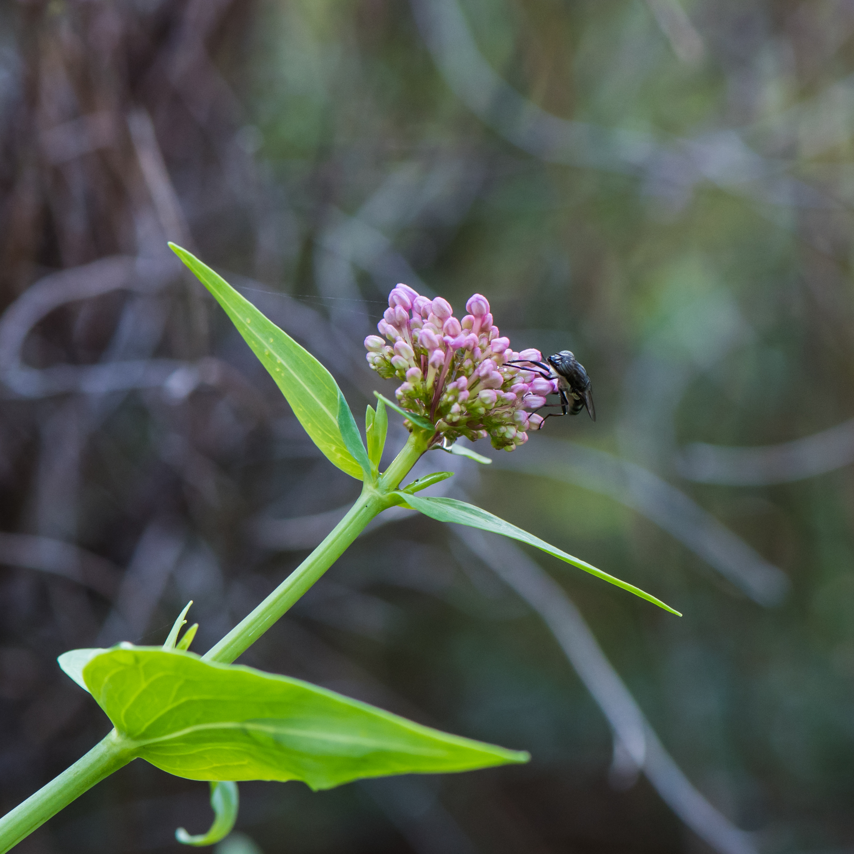 Stomorhina lunata female on flower buds of Centranthus ruber (Valerian).